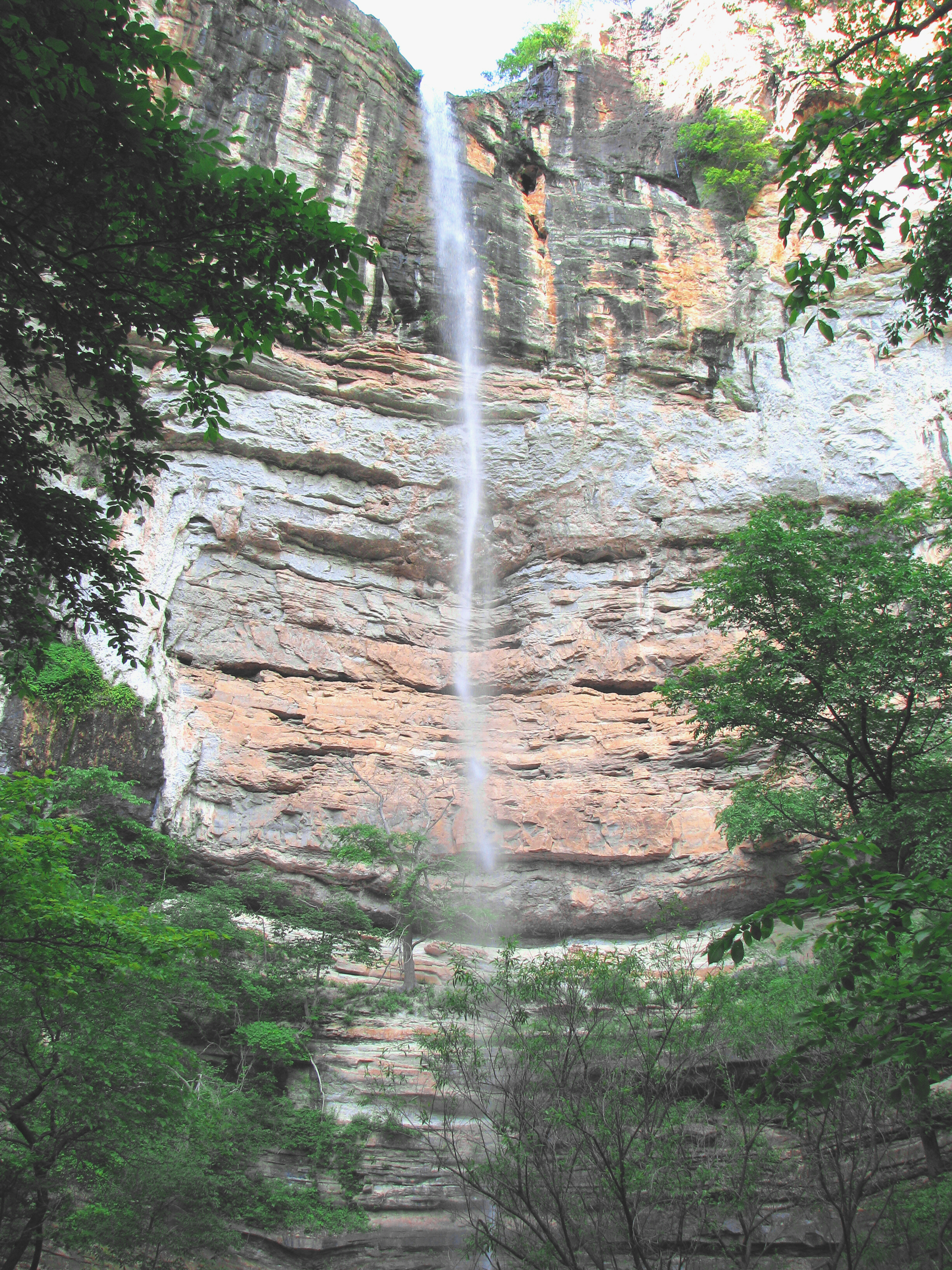 Hemmed-In Hollow Falls at very high flow, May, 2010.